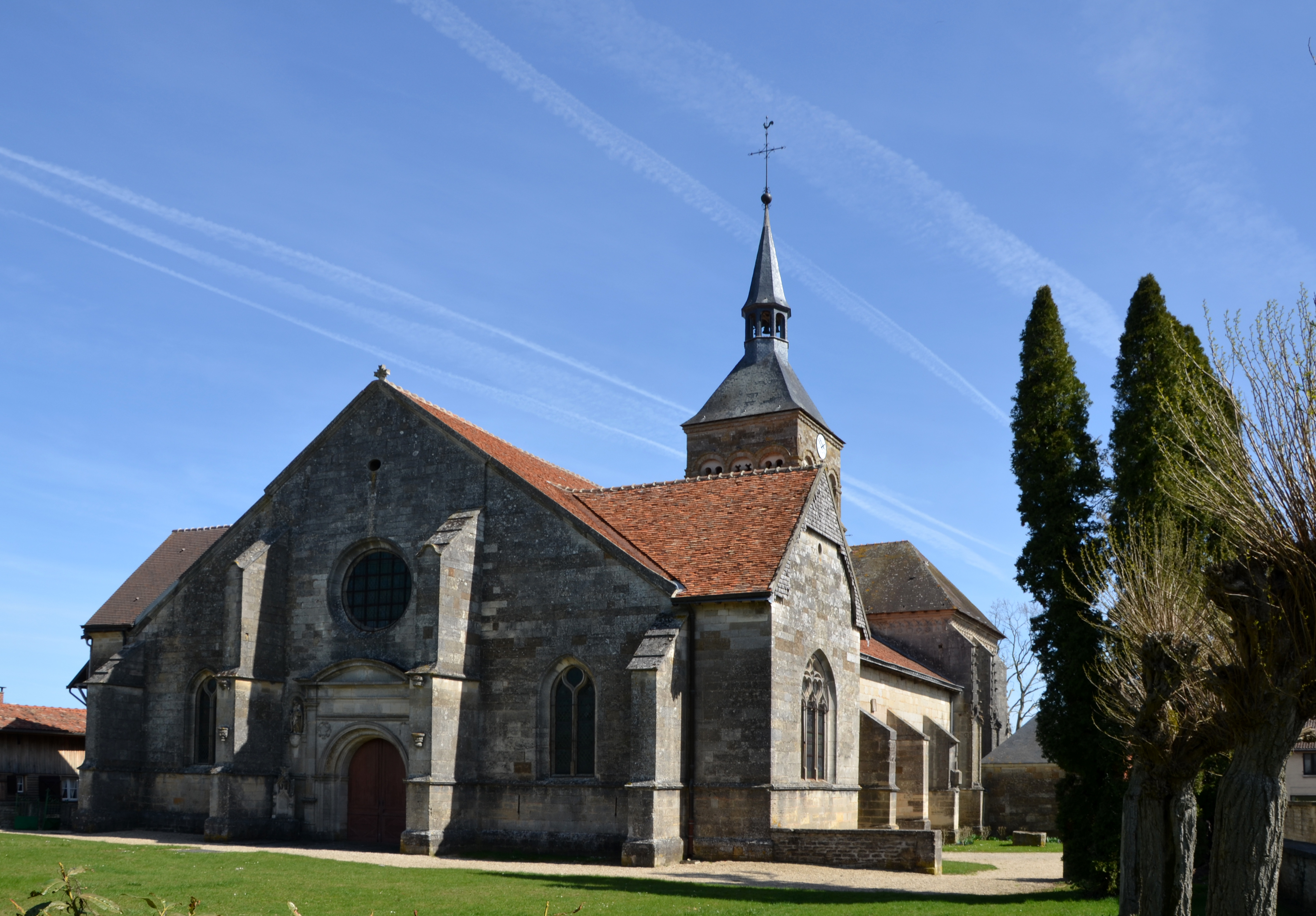 Church of Ceffonds, Haute-Marne, Champagne, France